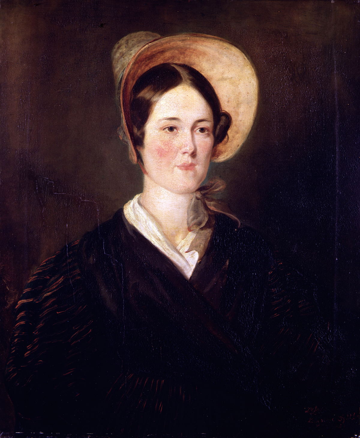 Grace Darling by Thomas Musgrave Joy (9 July, 1812 – 7 April, 1866) - a painter known principally for his portraits.